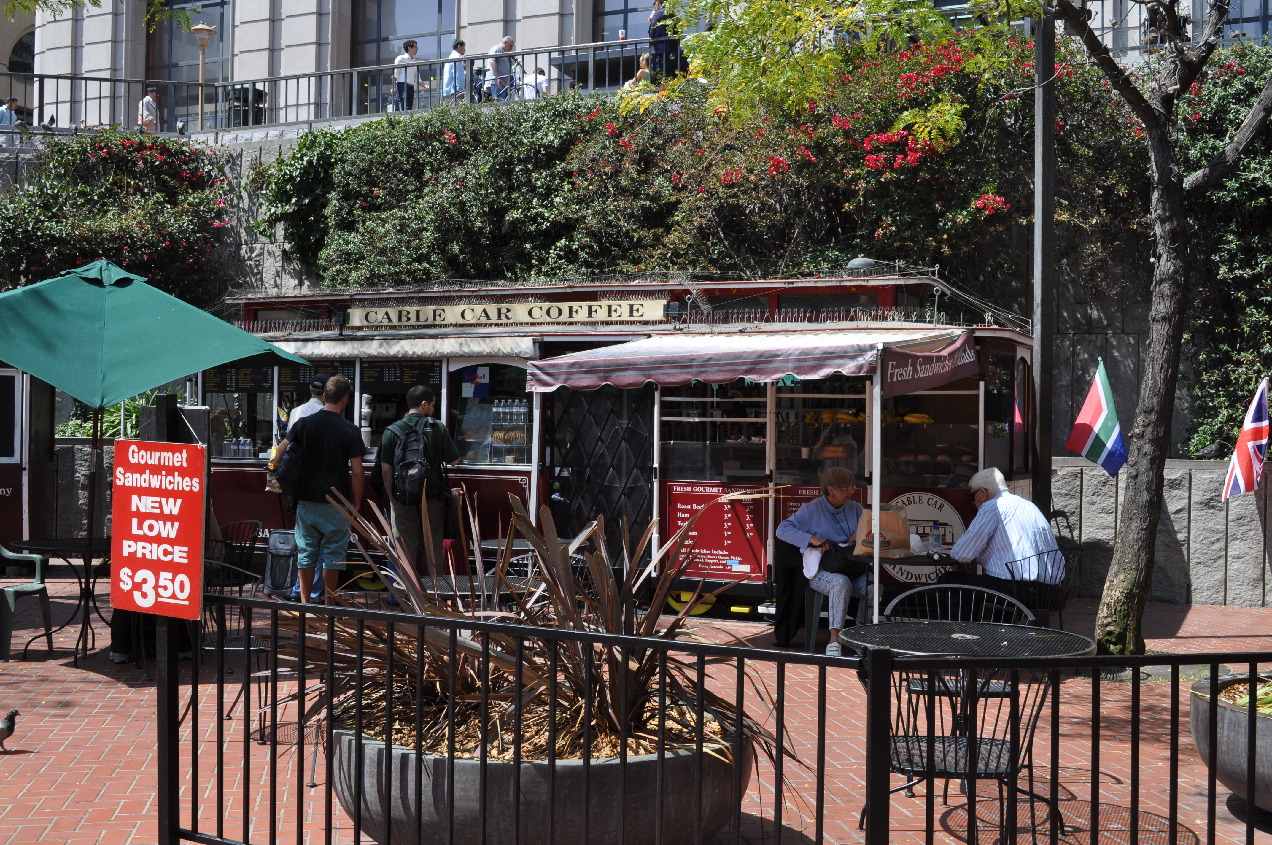 Cable Car Coffee, Hallidie Plaza, San Francisco, California. Near the corner of Market and Powell Streets.